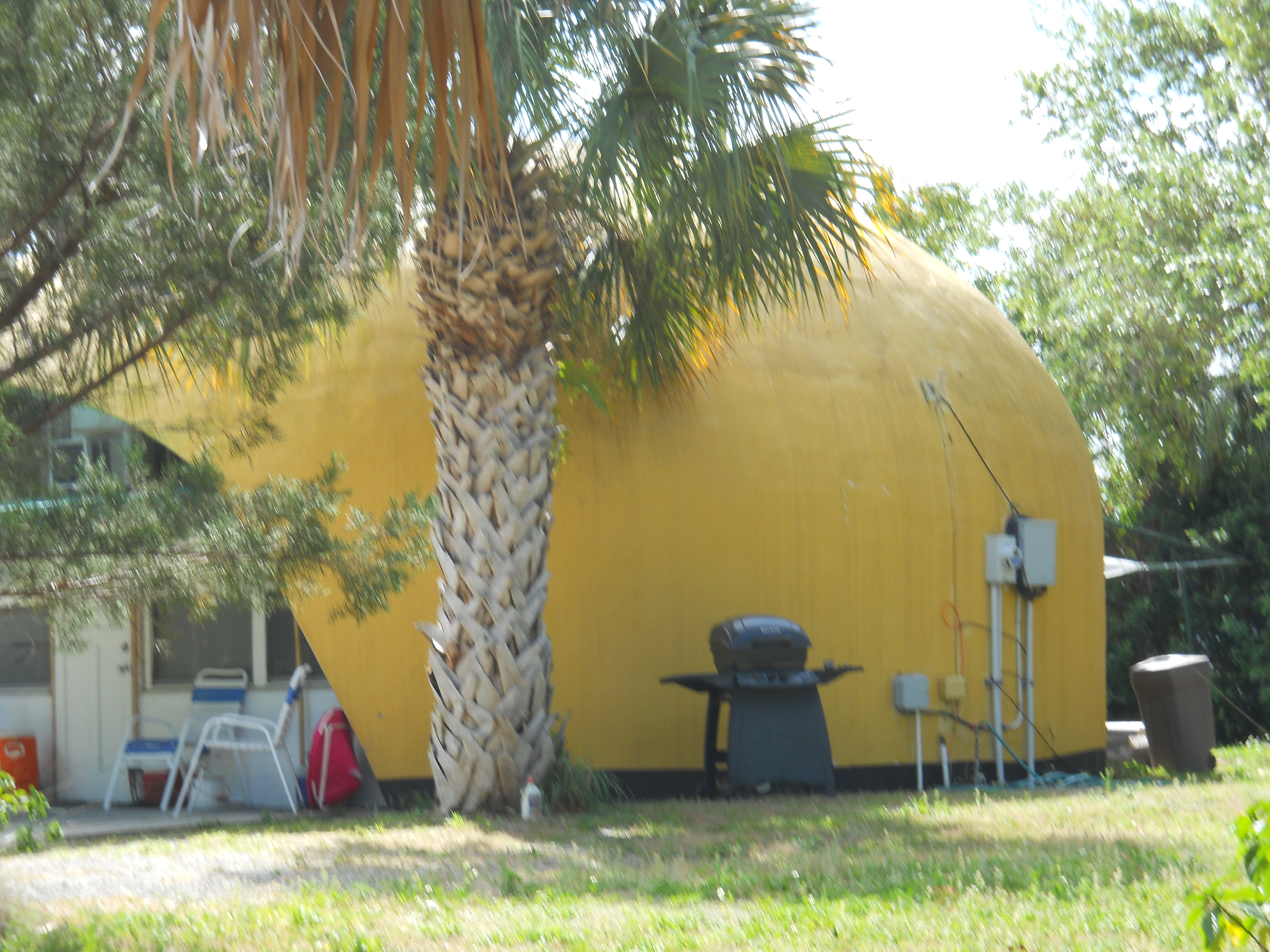 Yellow-painted Bubble House at 9096 SE Venus Street, Hobe Sound, Martin County, Florida:View from north west